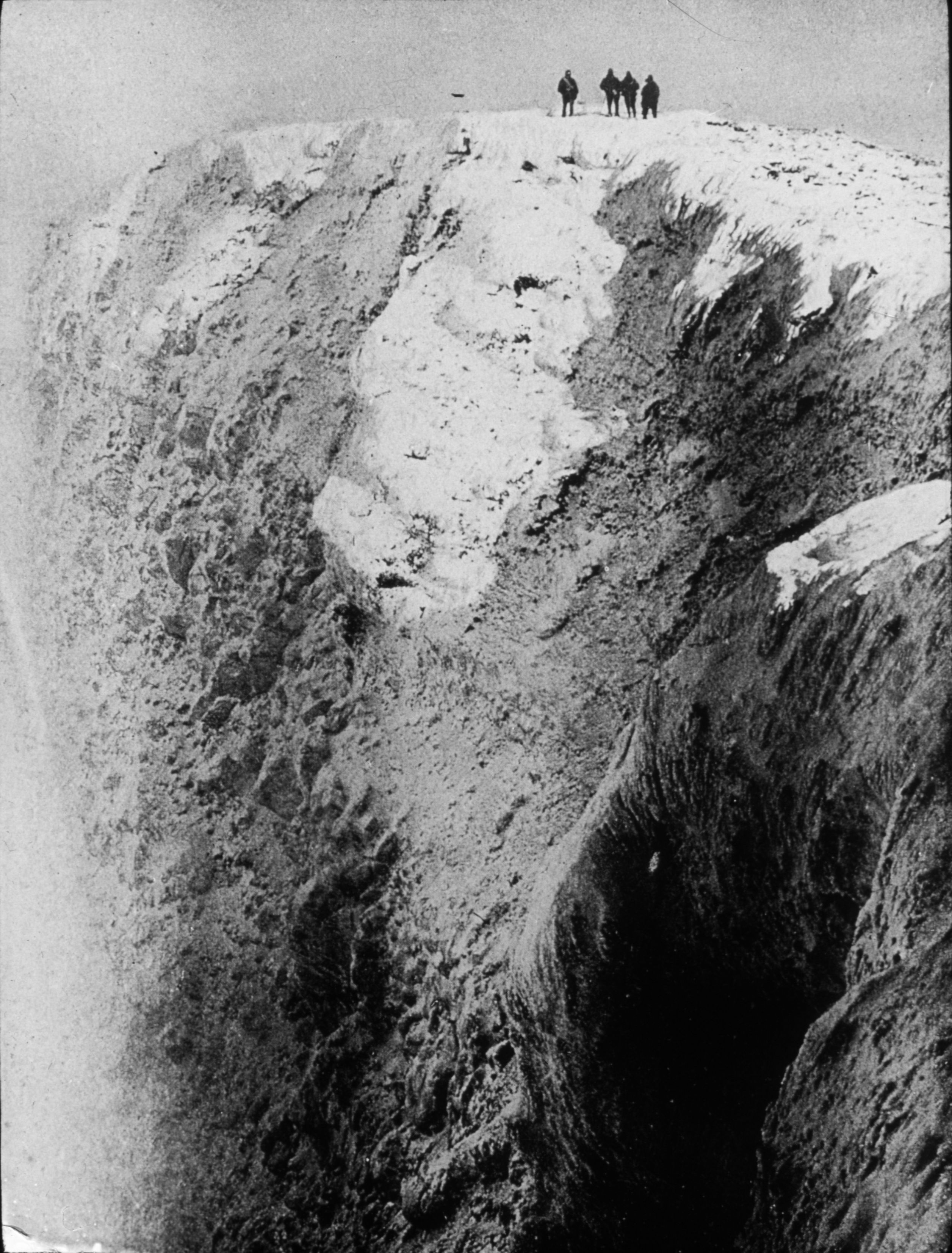 Photographs of the Nimrod Expedition (1907-09) to the Antarctic, led by Ernest Sheckleton